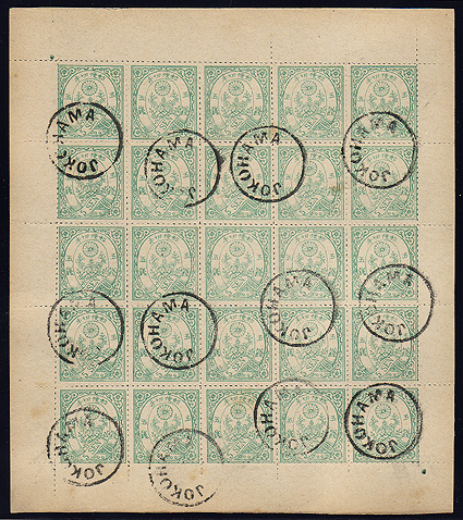 A sheet of Spiro forgeries of the 1872-75 cherry blossom issue.